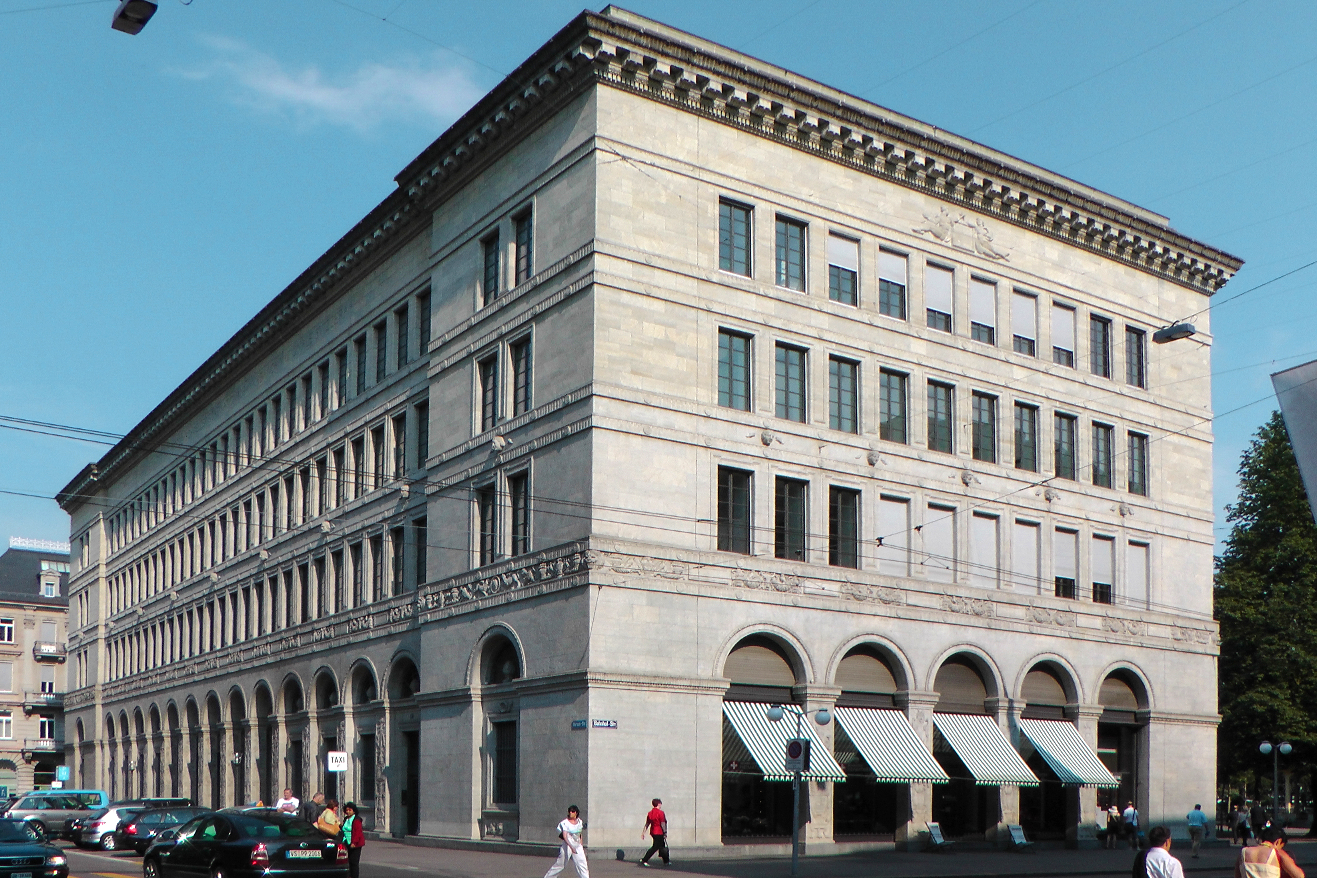 SNB Swiss National Bank in Zurich, near Bürkliplatz, at the corner of Bahnhofstrasse and Börsenstrasse